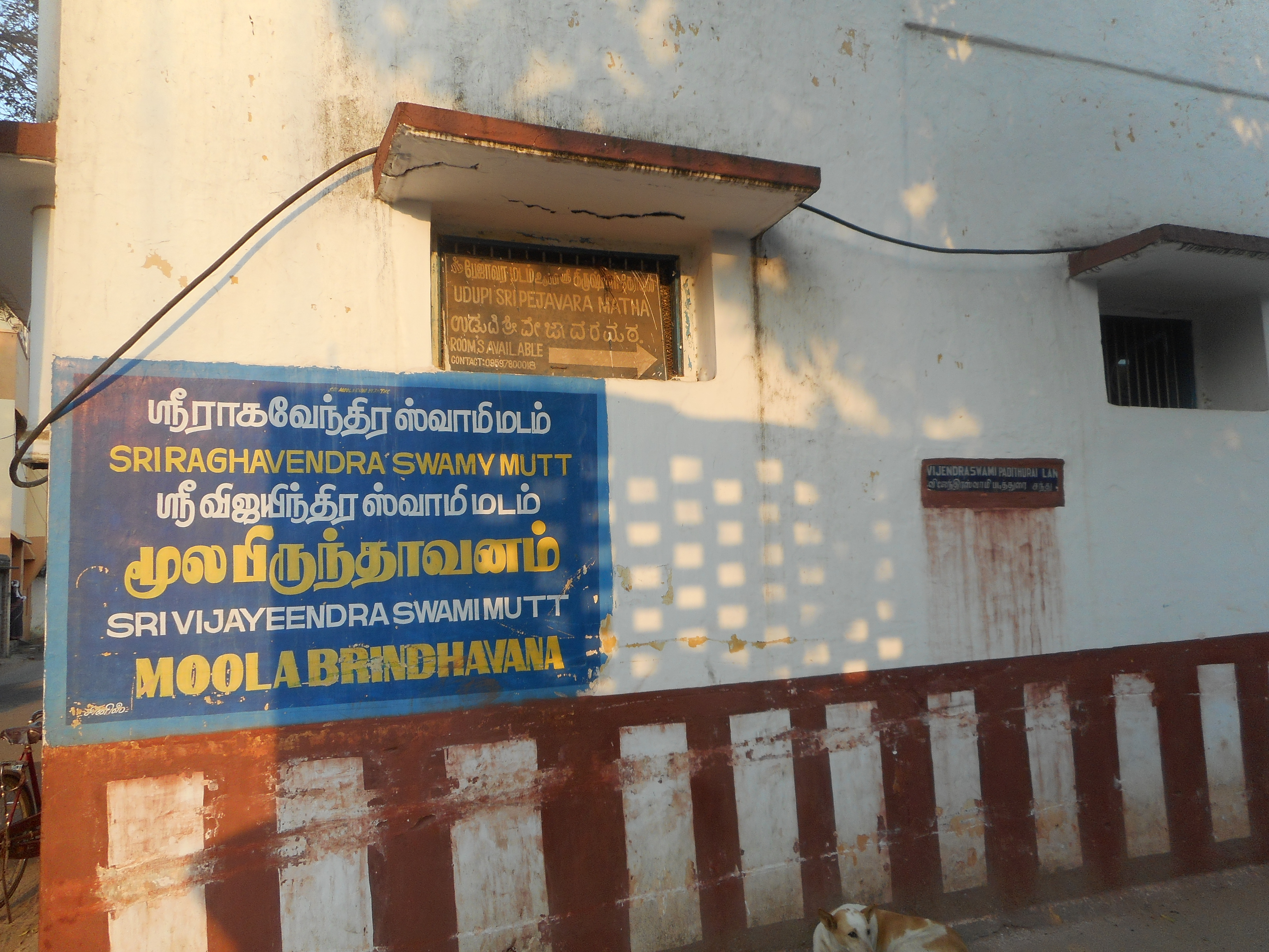 Vijendraswamy mutt விஜேந்திரசுவாமி மடம்